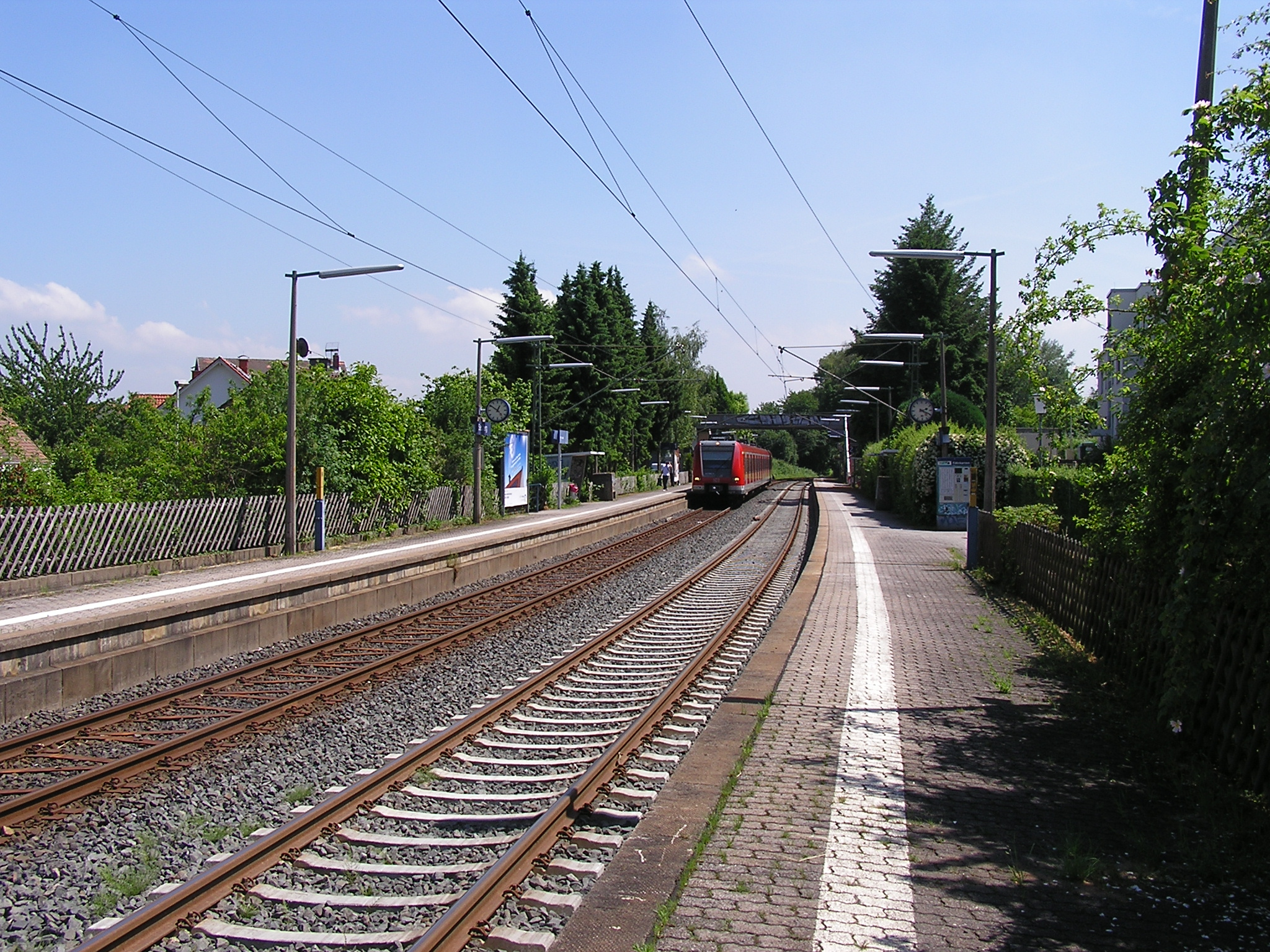 Stop Friedrichsdorf-Seulberg, view to direction Bad Homburg